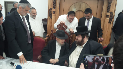 Meeting of electoral candidate Menachem Zaide with Rabbi Meir Mazuz and Eli Yishai during 2018 local elections in Beitar Ilit.